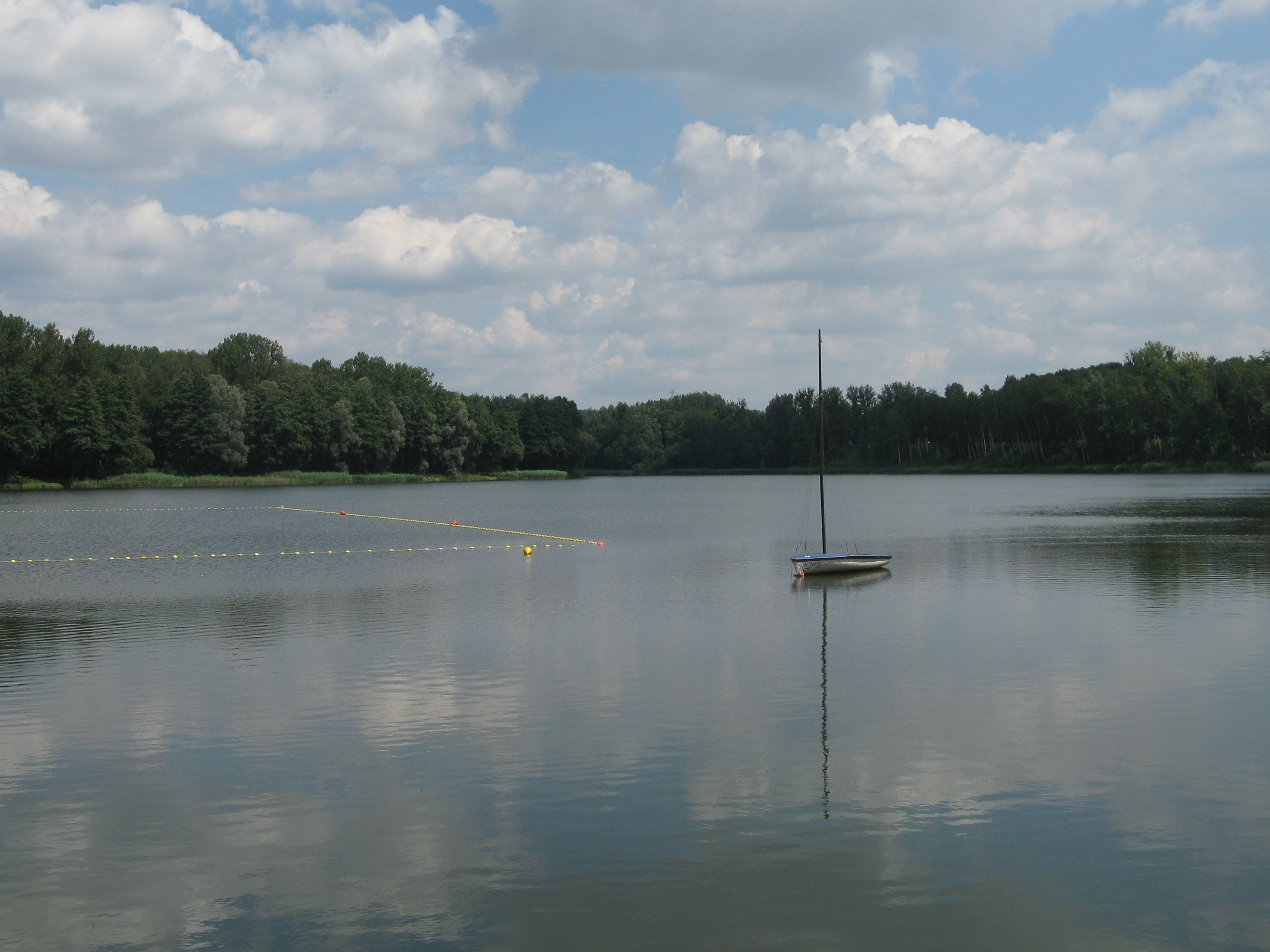 Rogoźnik I (Zalew Dolny) pond in Rogoźnik, powiat będziński, Poland.